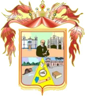 Arms Shield for Ciudad Ixtepec, Oaxaca, México. Image taked from a mexican official web page at